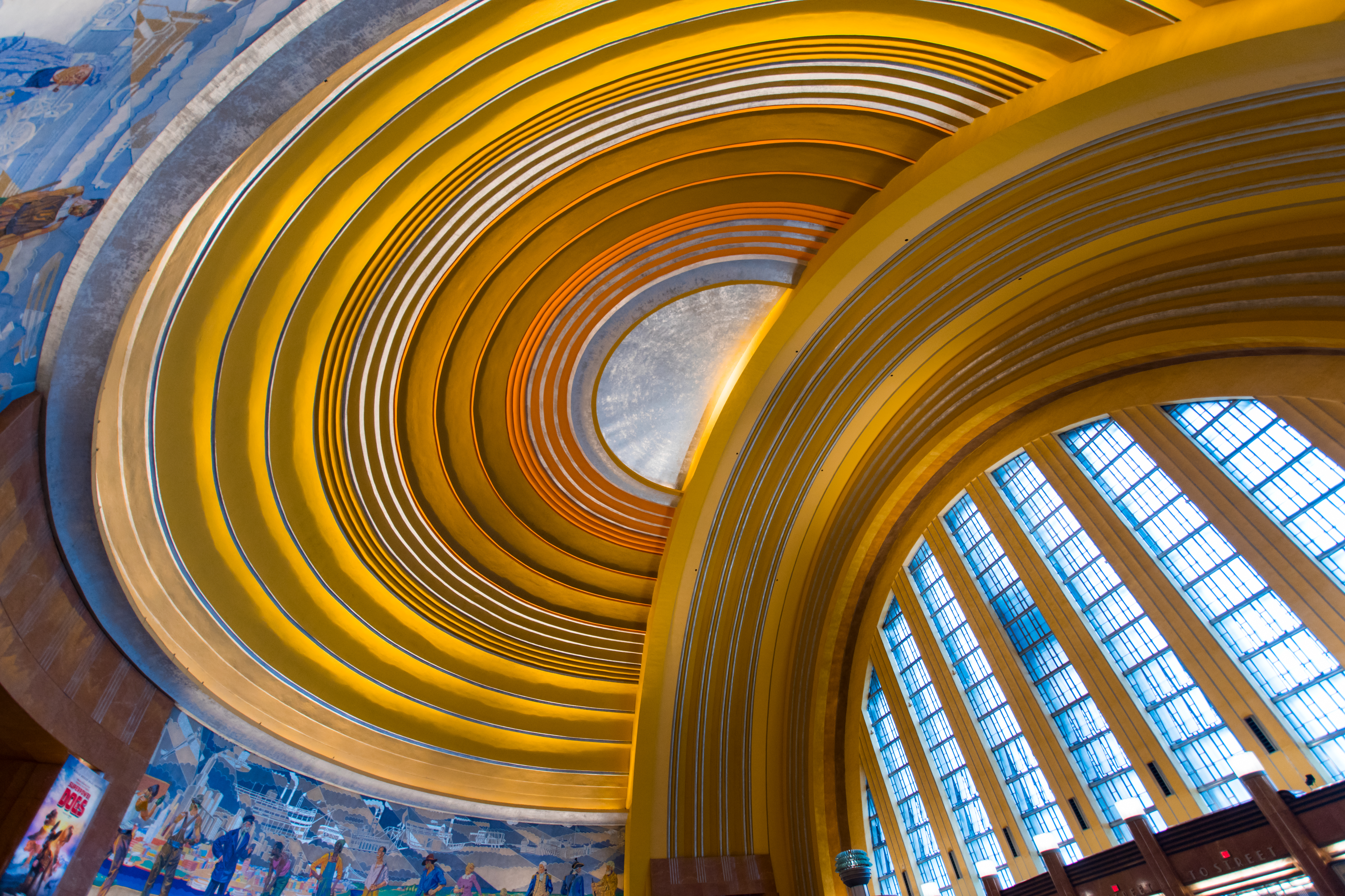 Cincinnati Union Terminal, iconic rail terminal in Cincinnati, Ohio.